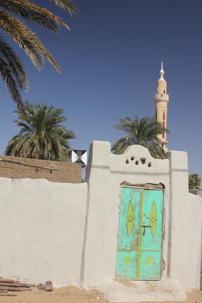 Modern Nubian architecture: ornately decorated gate